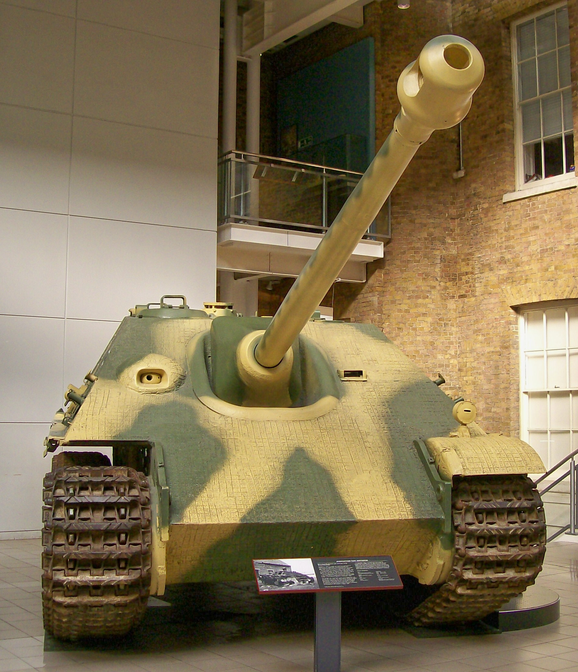 Jagdpanther, Imperial War Museum, London